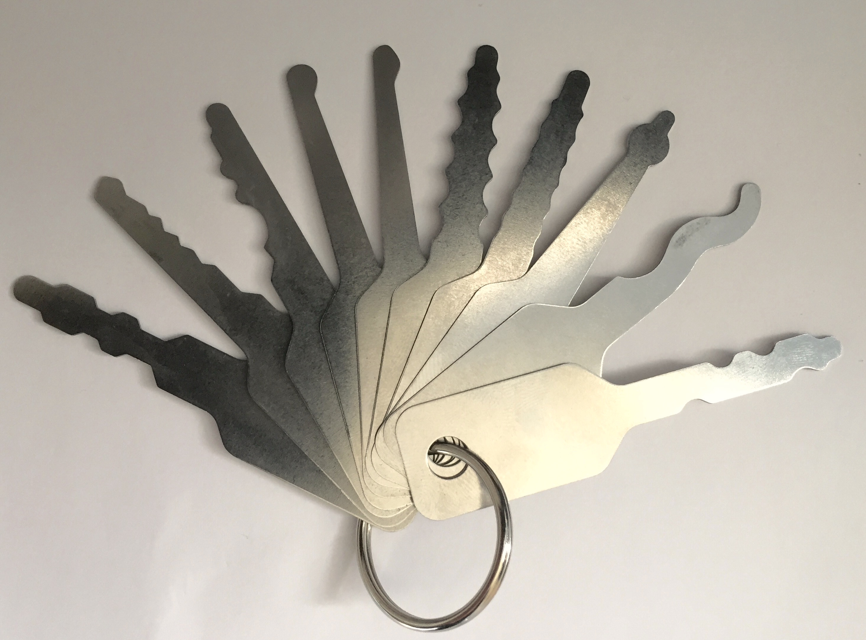 A set of wafer lock try out keys, or sometimes called "jigglers", which can be used to open types of wafer locks. Photo taken by me.